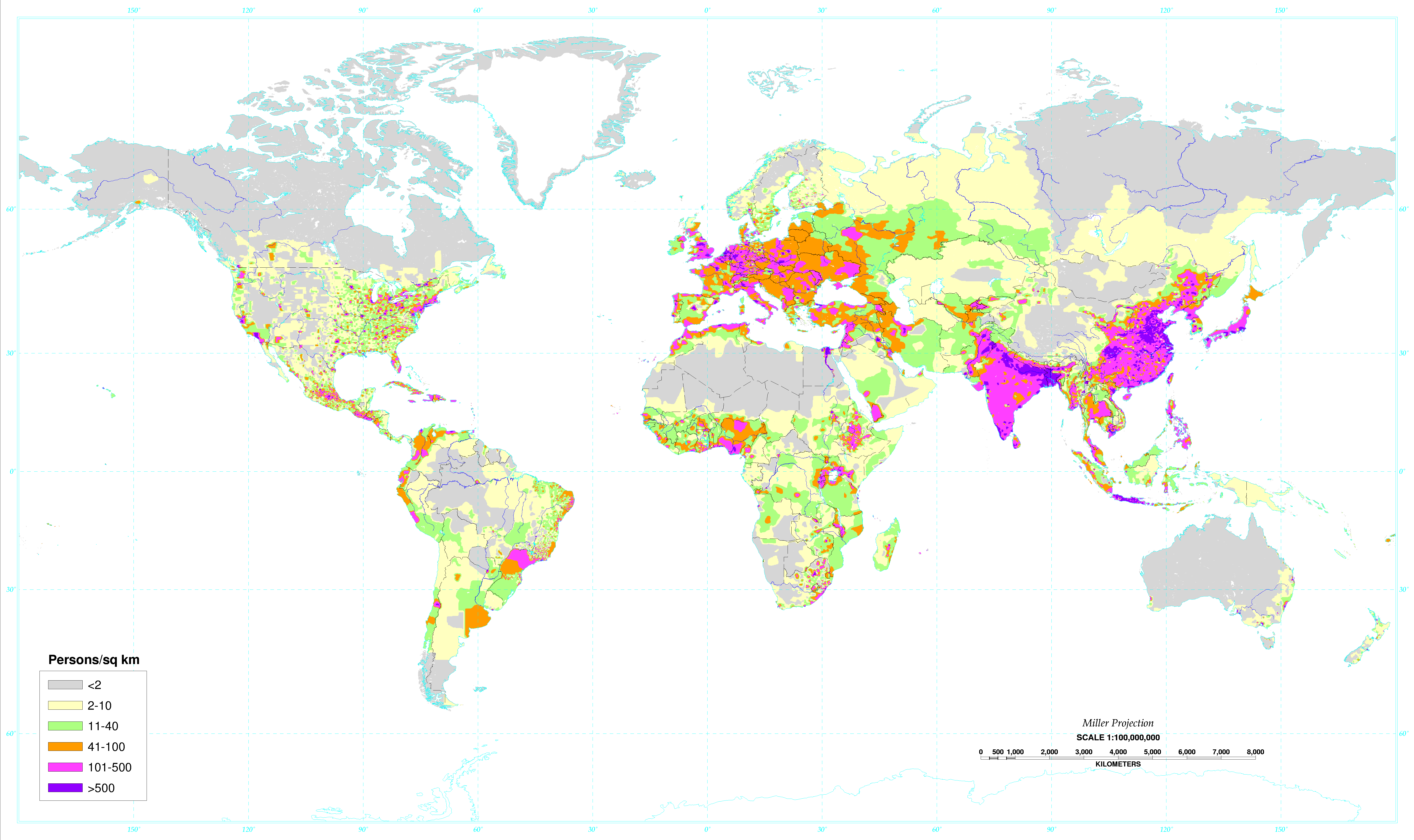 World map of the population density in 1994. A more recent population density map can be found at